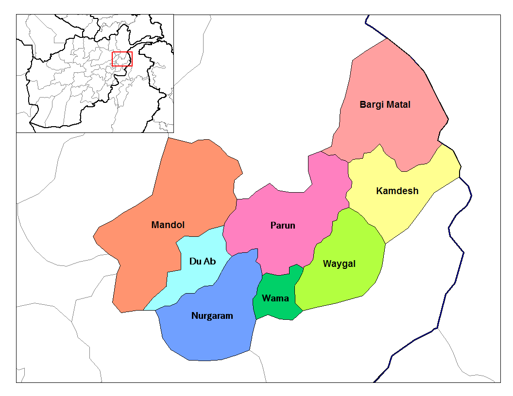 Added Du Ab district and Parun district to Rarelibra's Nurestan districts.png, changed Nuristan district to Nurgaram district